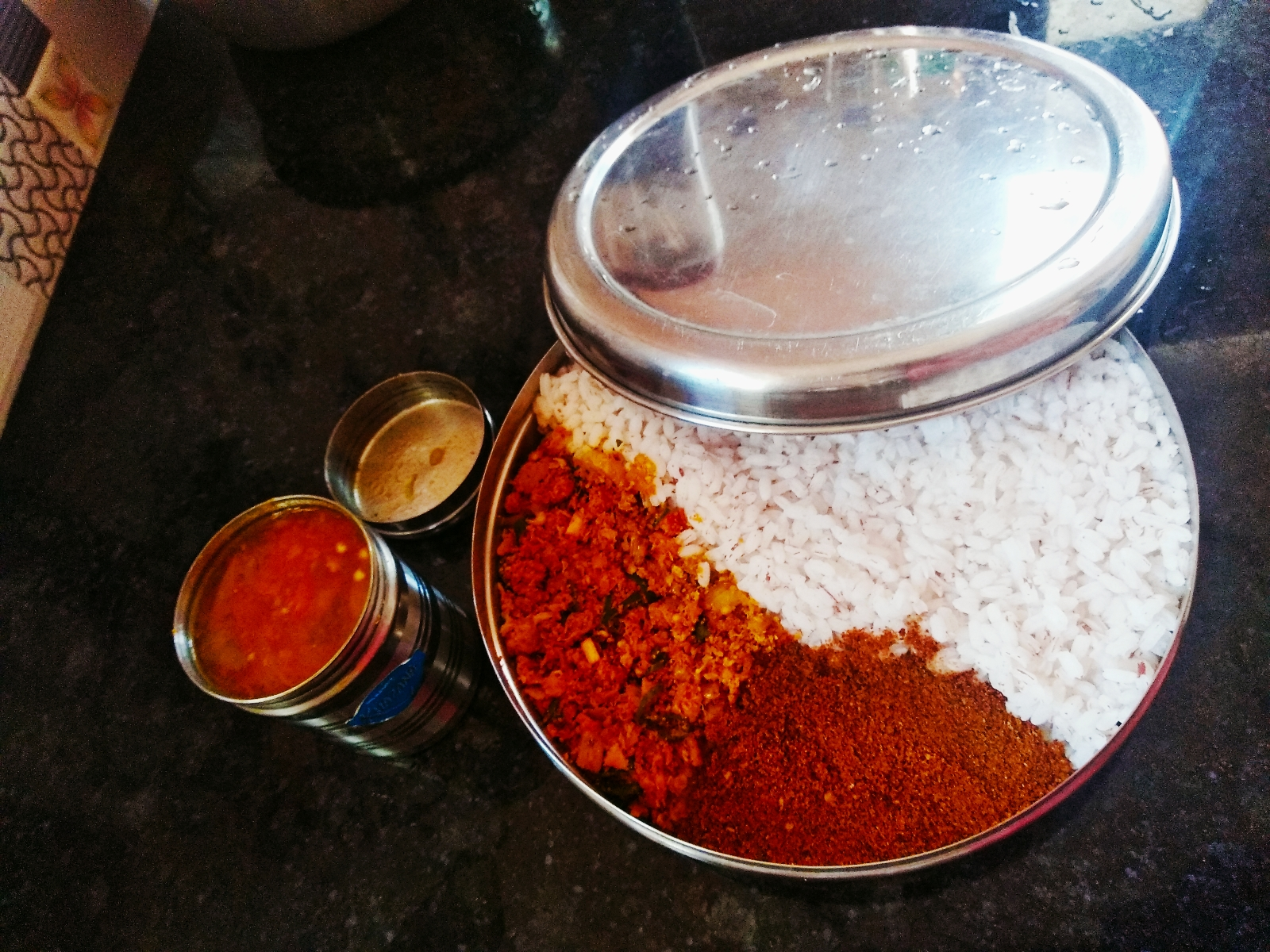 sampadam or lunch box